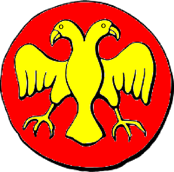 coat of arms - Smilets of Bugaria